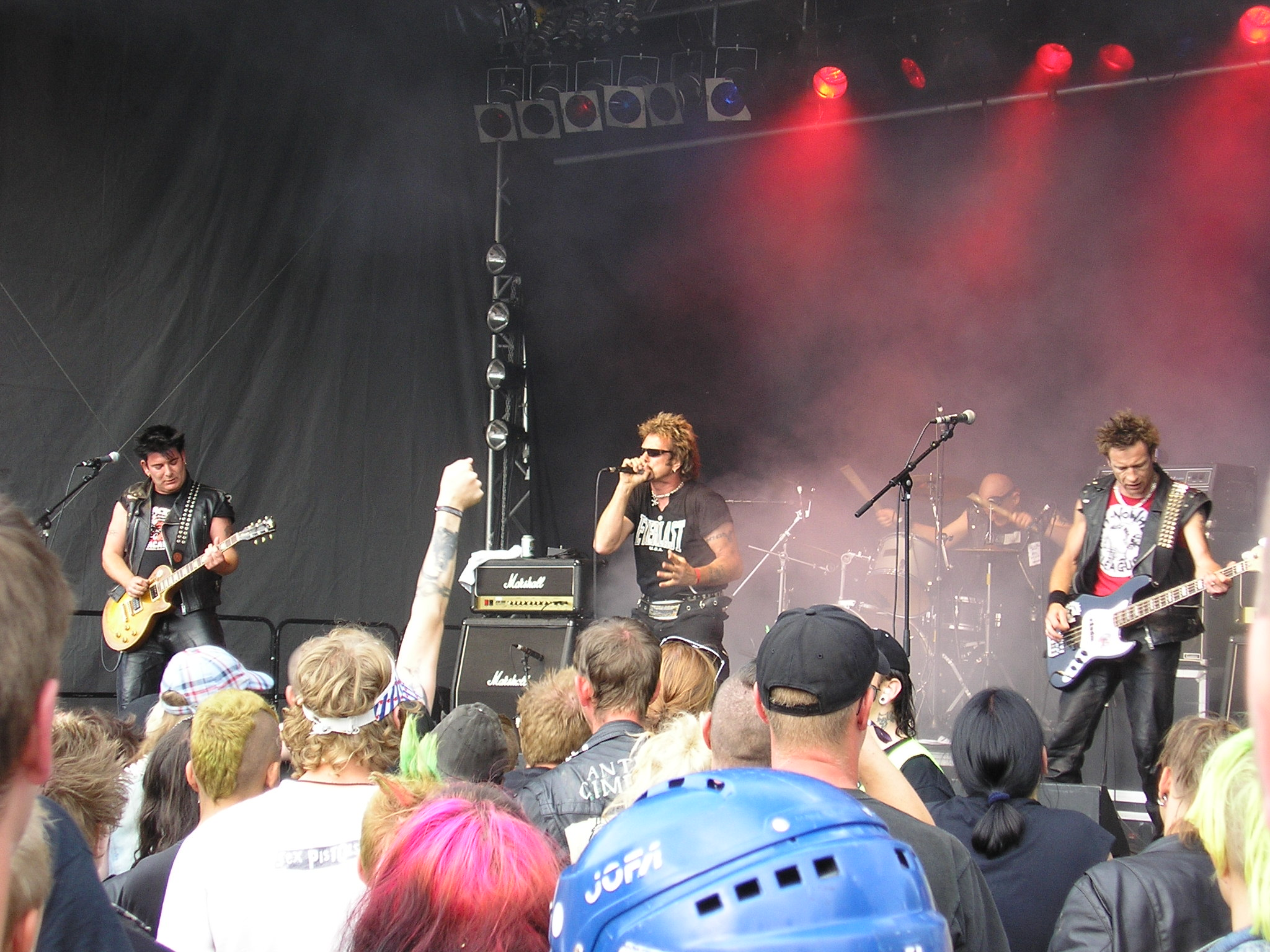 Anti-Nowhere League playing at Augustibuller 2007.